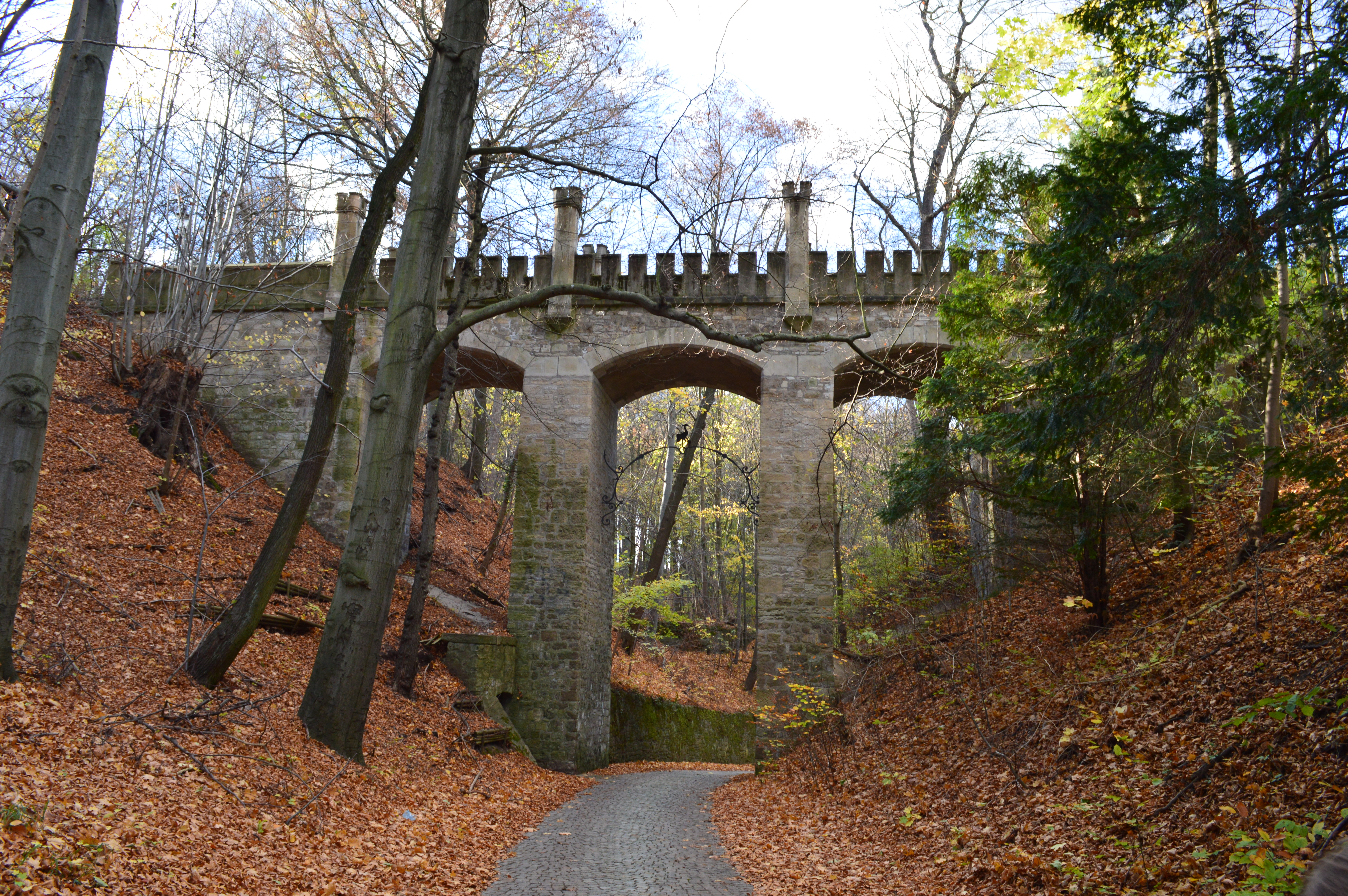 Osterstein castle in Gera, Germany, in October 2013: Wolfsbrücke (Wolf's Bridge)